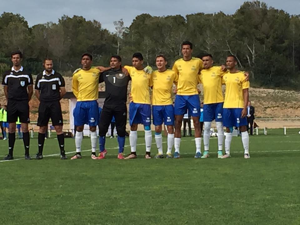 Photo taken at IFCPF Pre Paralympic Tournament Salou 2016 using personal iPhone.